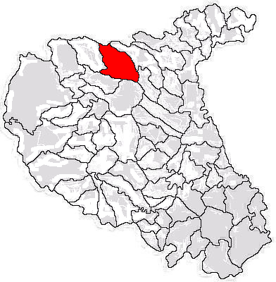 Map of limits of commune in Vrancea County